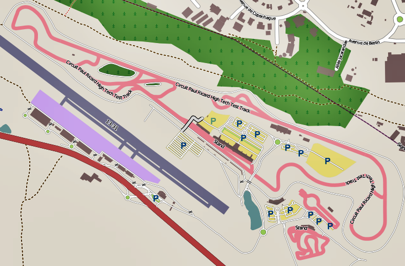 This map may be incomplete, and may contain errors. Don't rely solely on it for navigation.